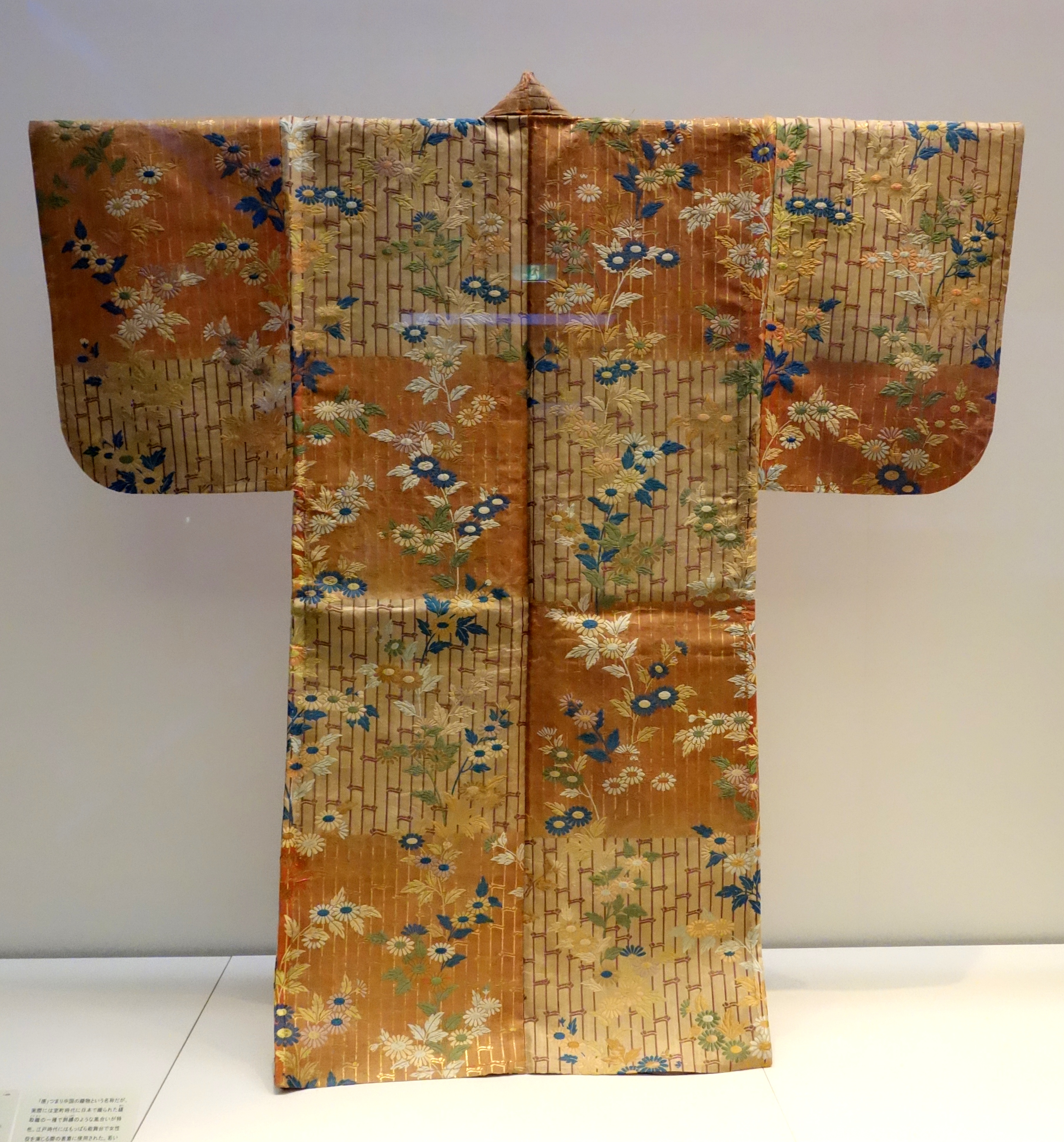 Exhibit in the Tokyo National Museum, Tokyo, Japan. This artwork is old enough so that it is in the public domain.